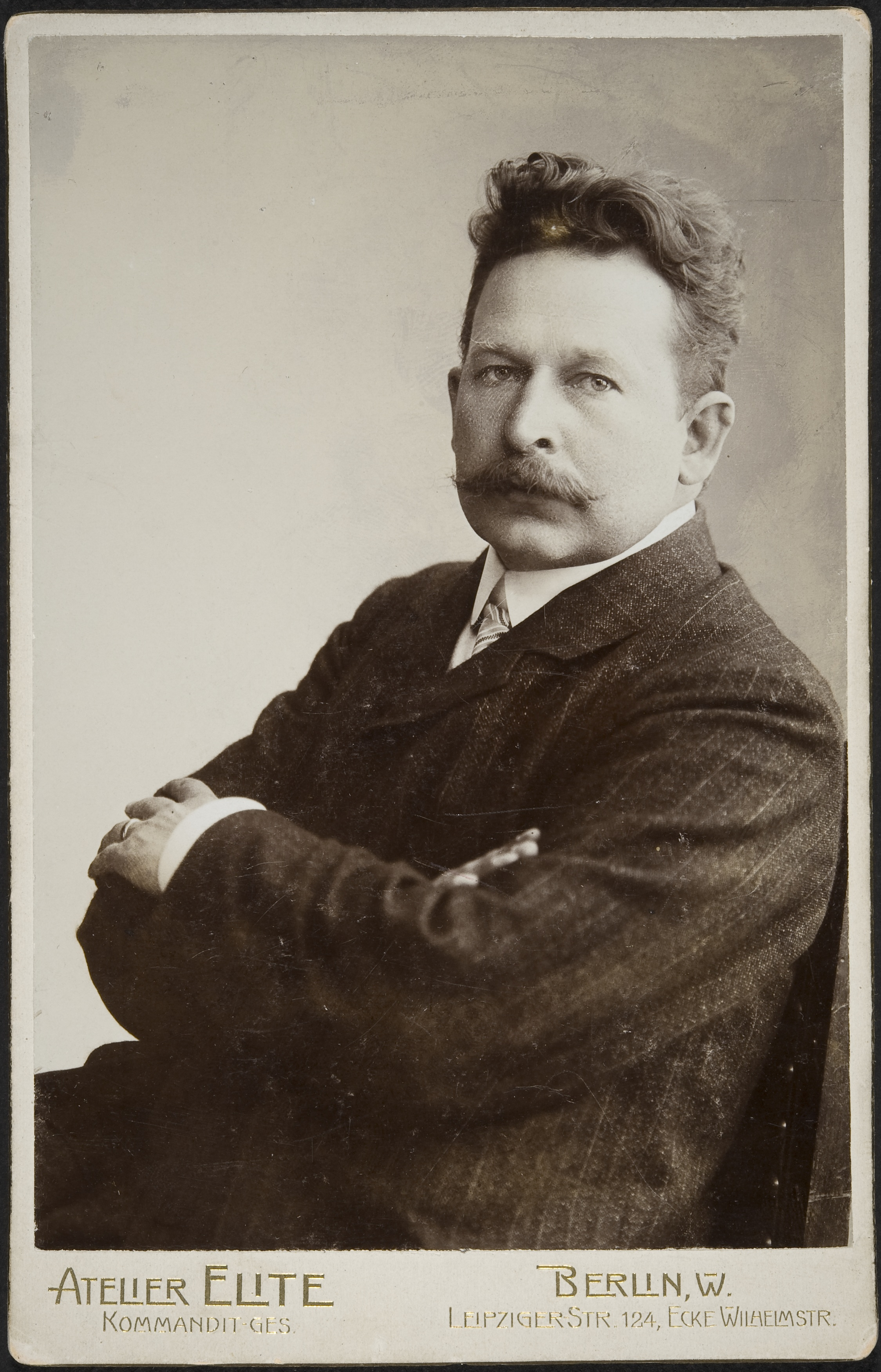 Finnish composer Otto Kotilainen (1868–1936).